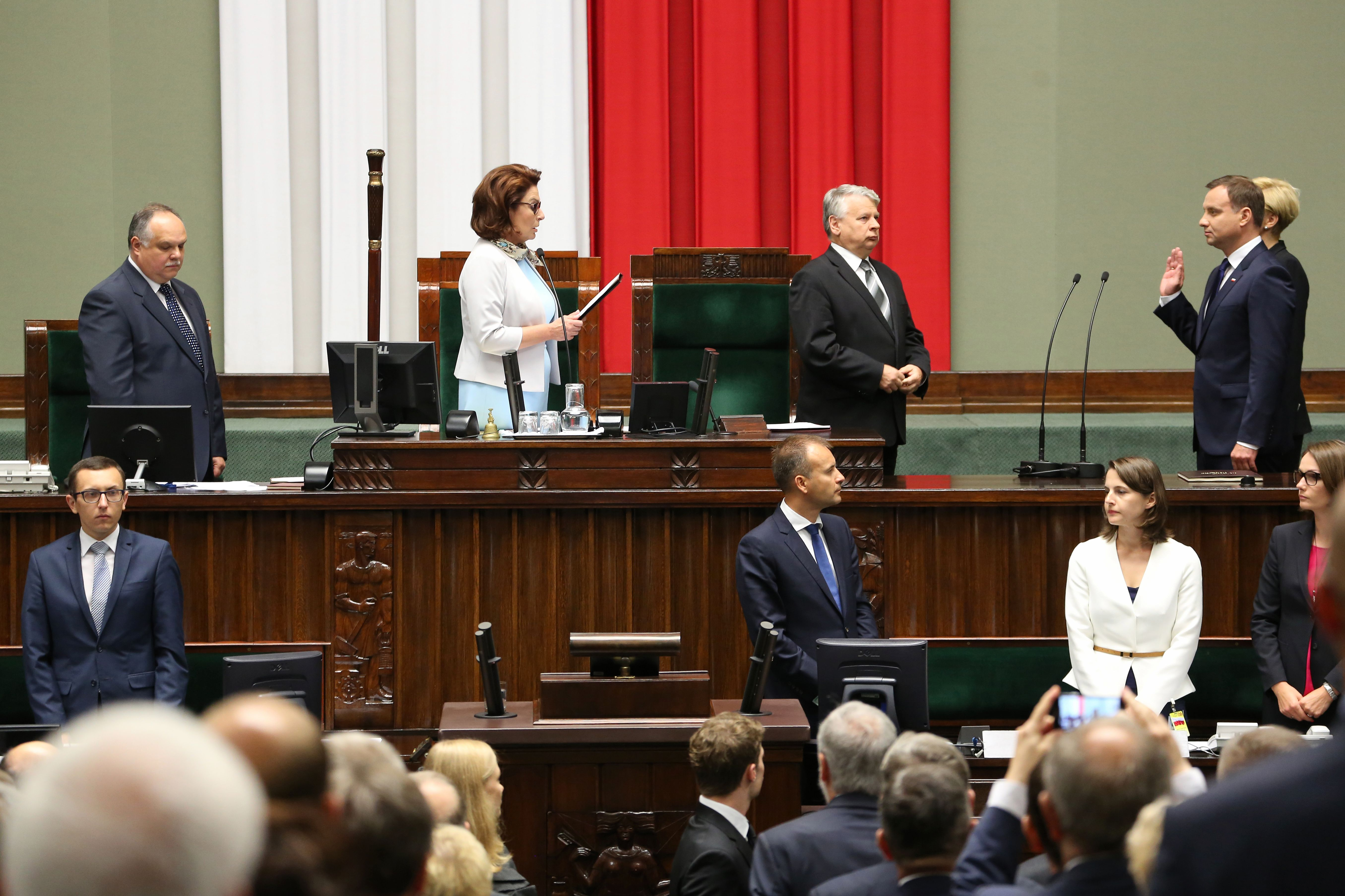 Andrzej Duda taking a presidential oath in front of the National Assembly